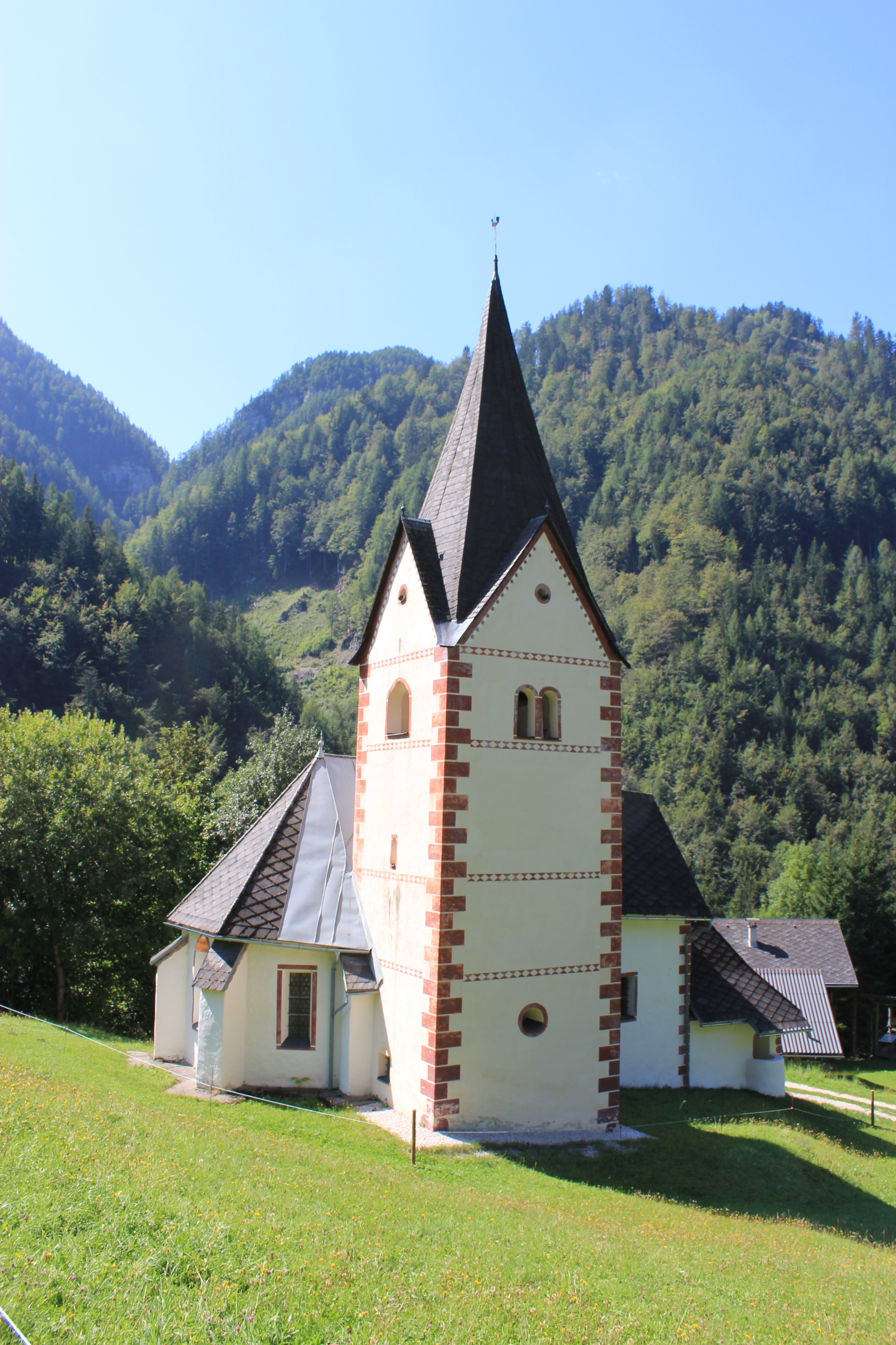 Church St Margaretha in Remschenig in the community of Eisenkappel-Vellach